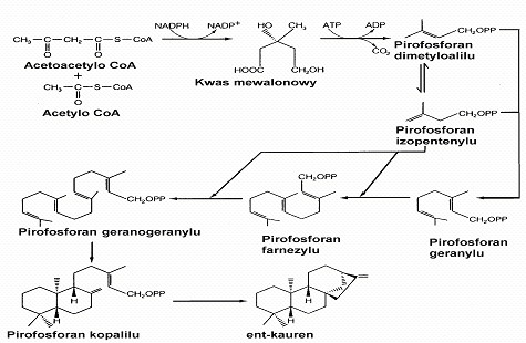 Giberelin synthesis